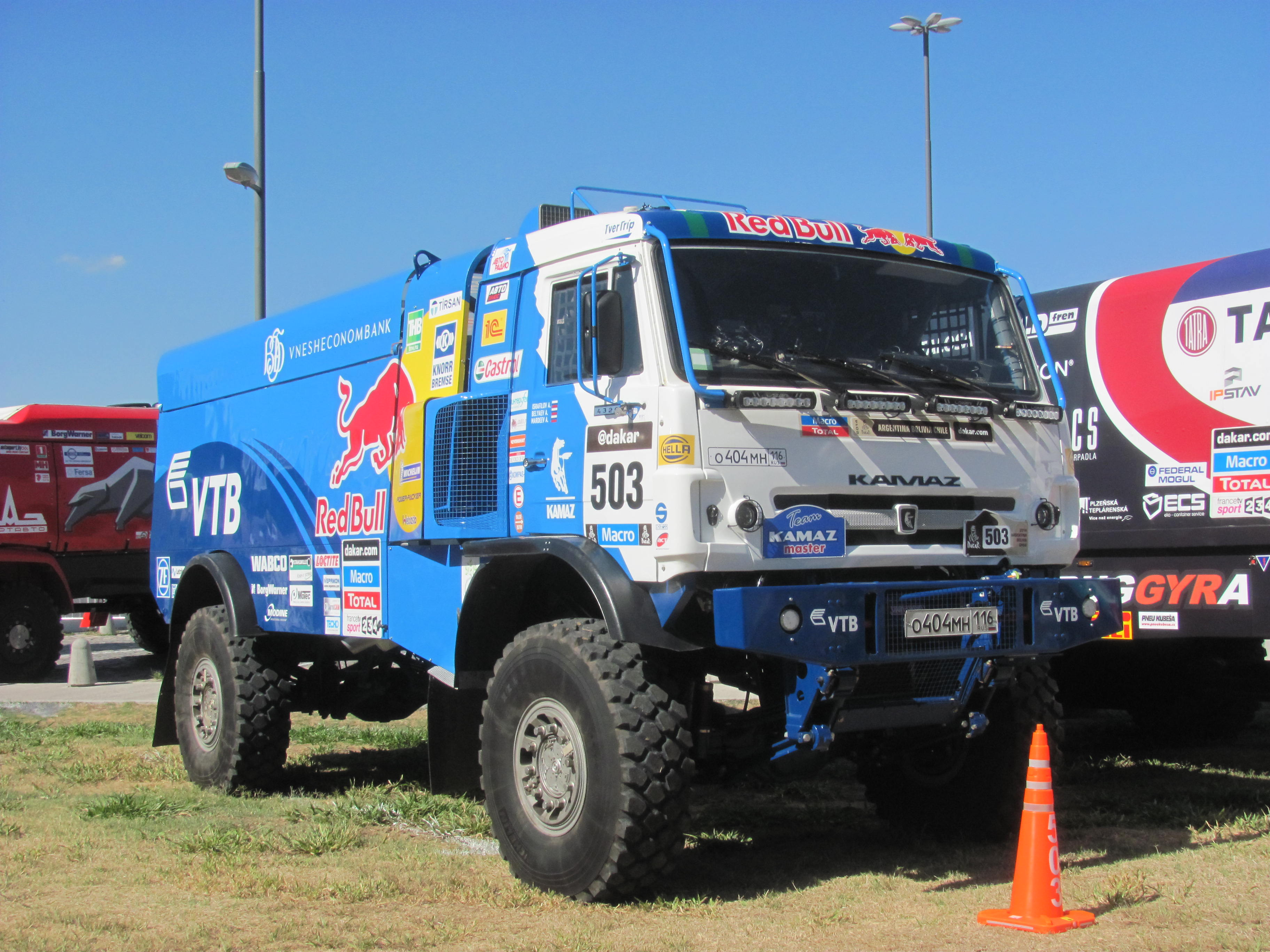 2014 Dakar Rally trucks before the start of the event